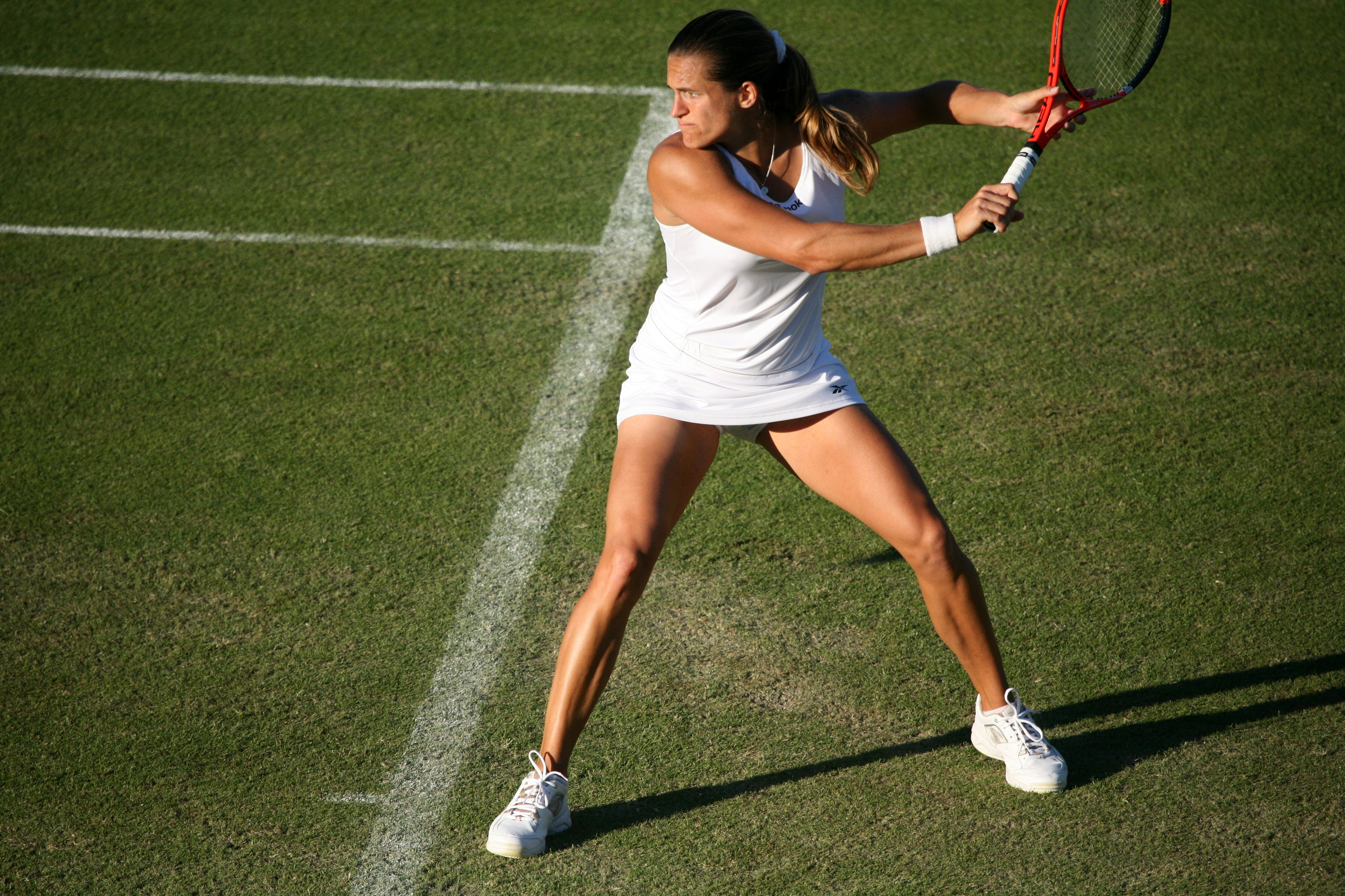 Amélie Mauresmo against Melinda Czink in the 2009 Wimbledon Championships first round